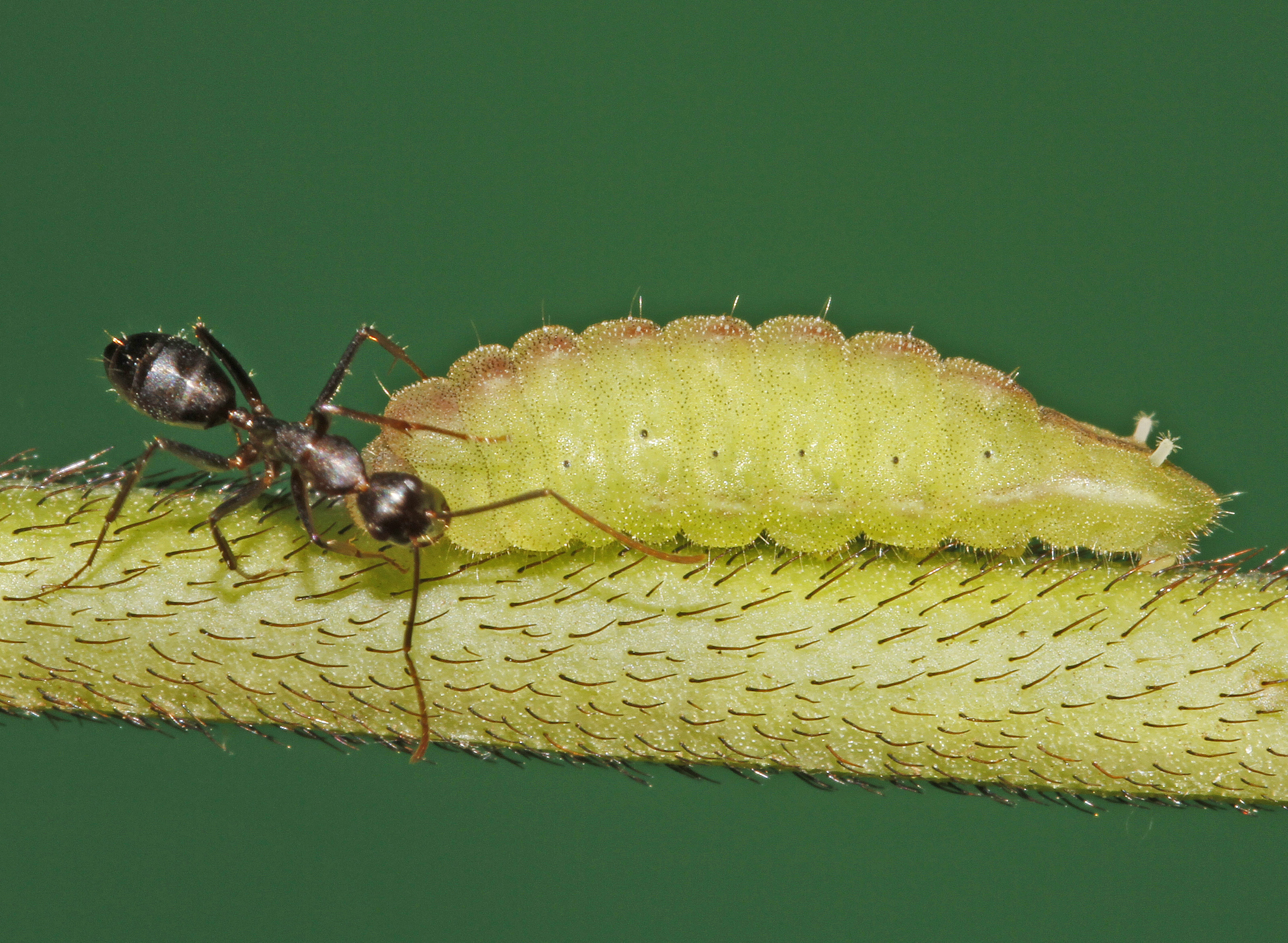 Larva of Gram Blue Euchrysops cnejus cnejus Butterfly with ant and protruding DE organ